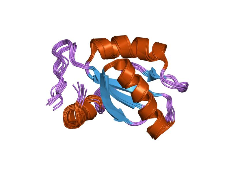 Cartoon representation of the molecular structure of protein registered with 1rq8 code.